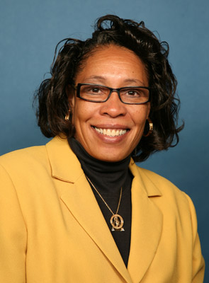 Marcia Fudge, member of the United States House of Representatives.